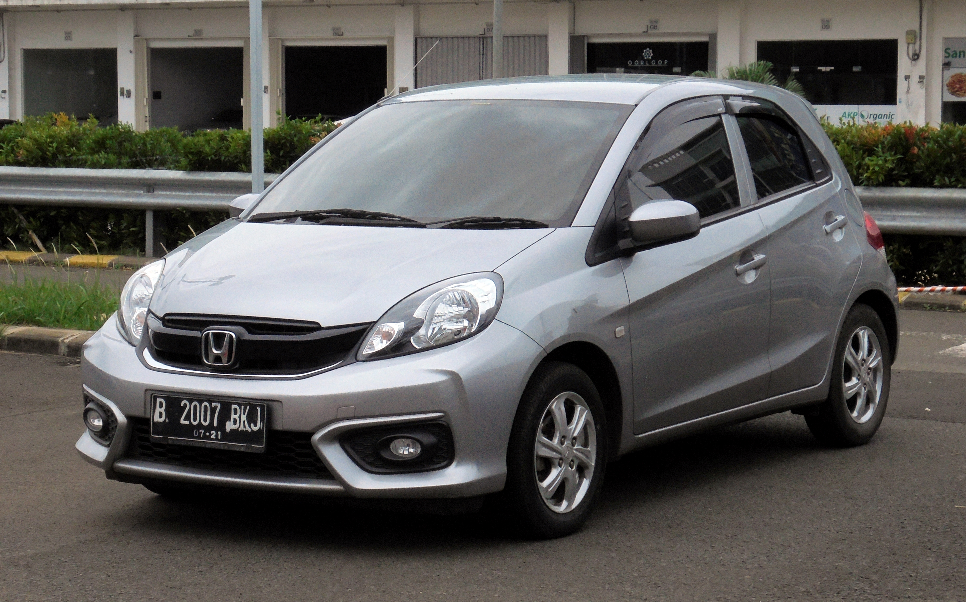 2016 Honda Brio Satya 1.2 E hatchback (DD1) photographed in South Tangerang, Banten, Indonesia.